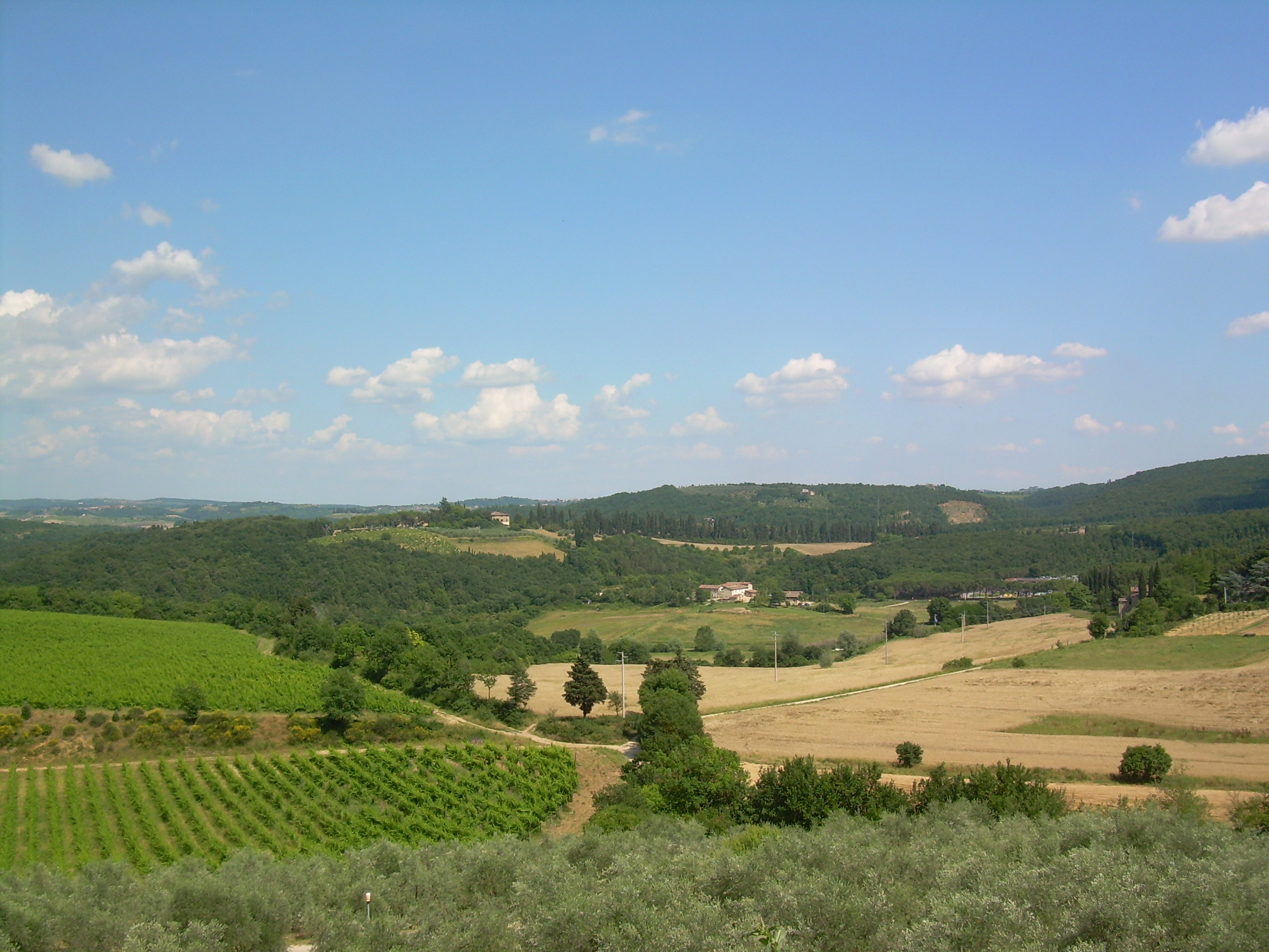 The Montagnola Senese seen from Monteriggioni, Province of Siena, Tuscany, Italy